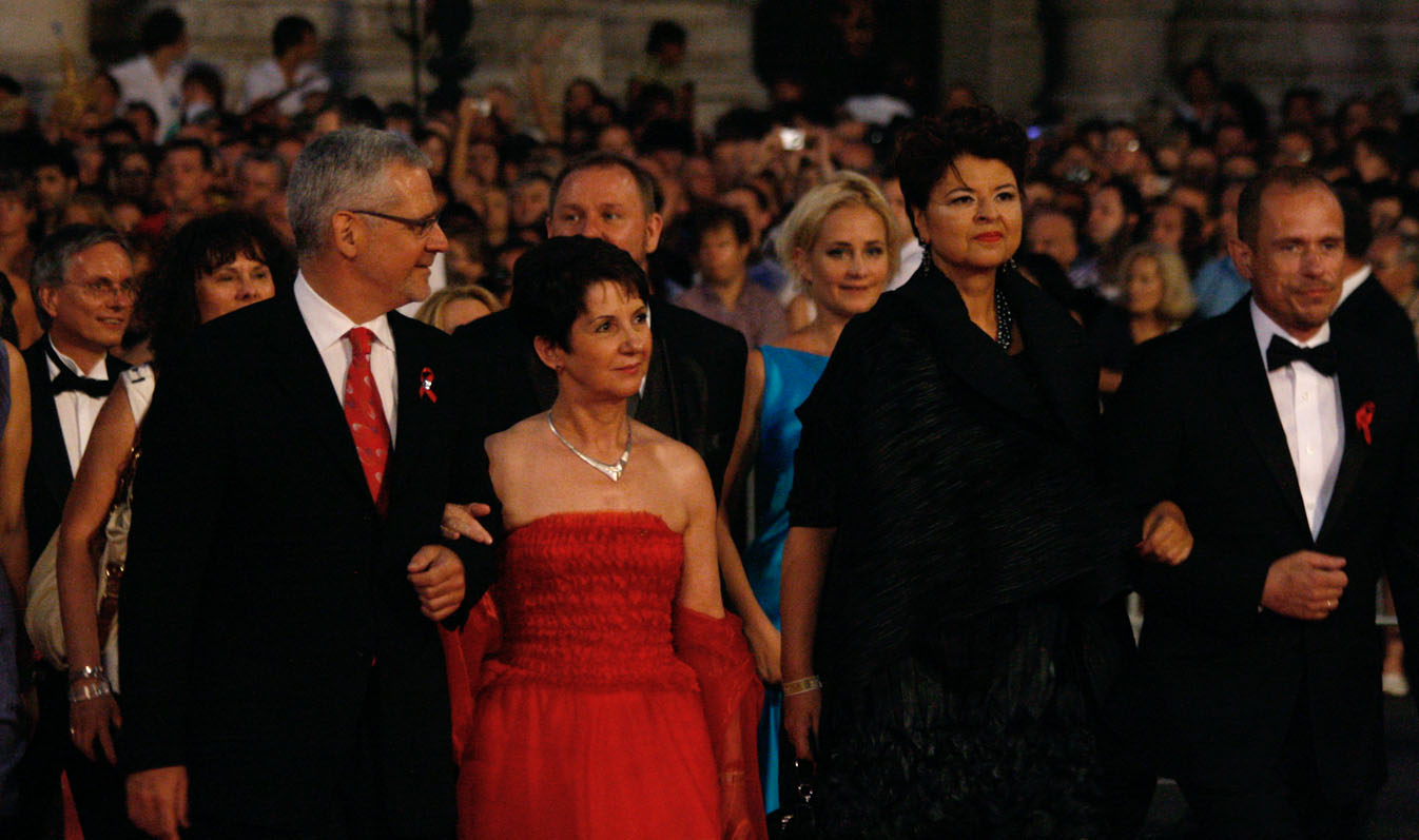 Barbara Prammer, Renate Brauner, Julio Montaner, Alois Stöger, Gery Keszler and other guests on the red carpet of the Life Ball 2010.